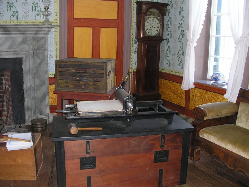 Printing press inside the Clover Hill Tavern at Appomattox Court House, Va